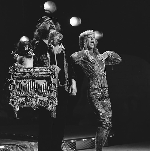 Mouth & MacNeal in AVRO's TopPop (Dutch television show) in 1974